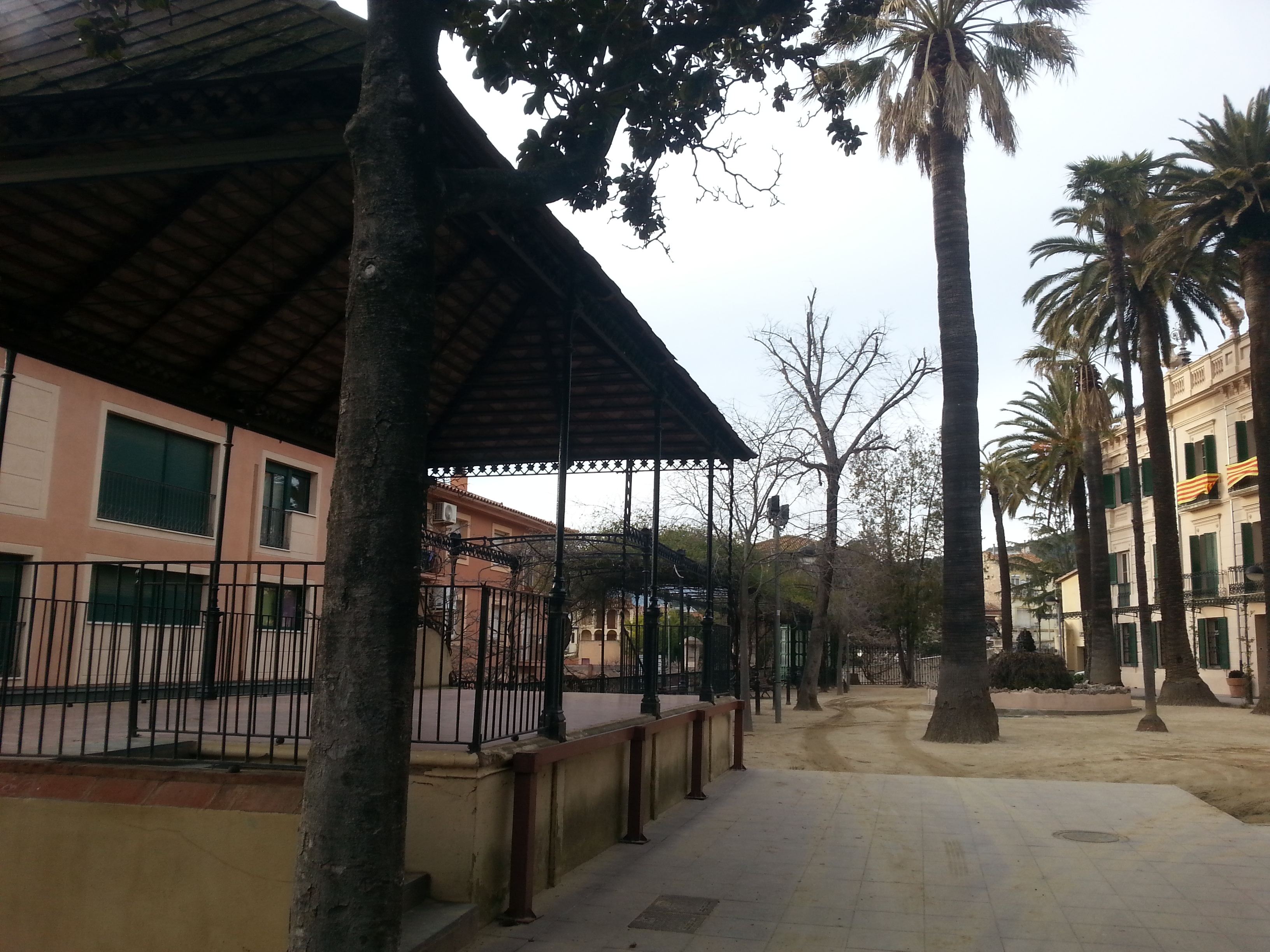 Palau Tolrà Building